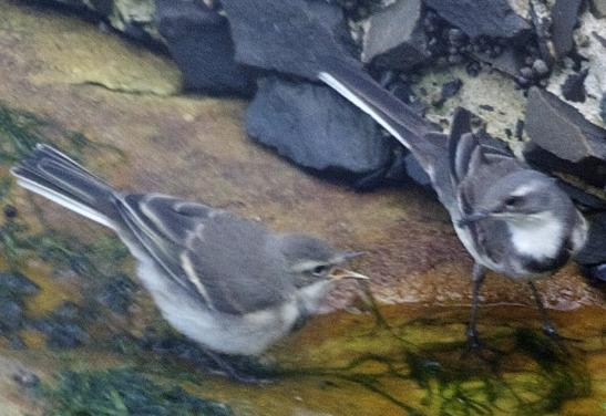 Juvenile and adult Cape wagtails (Motacilla capensis) at Simonstown, South Africa